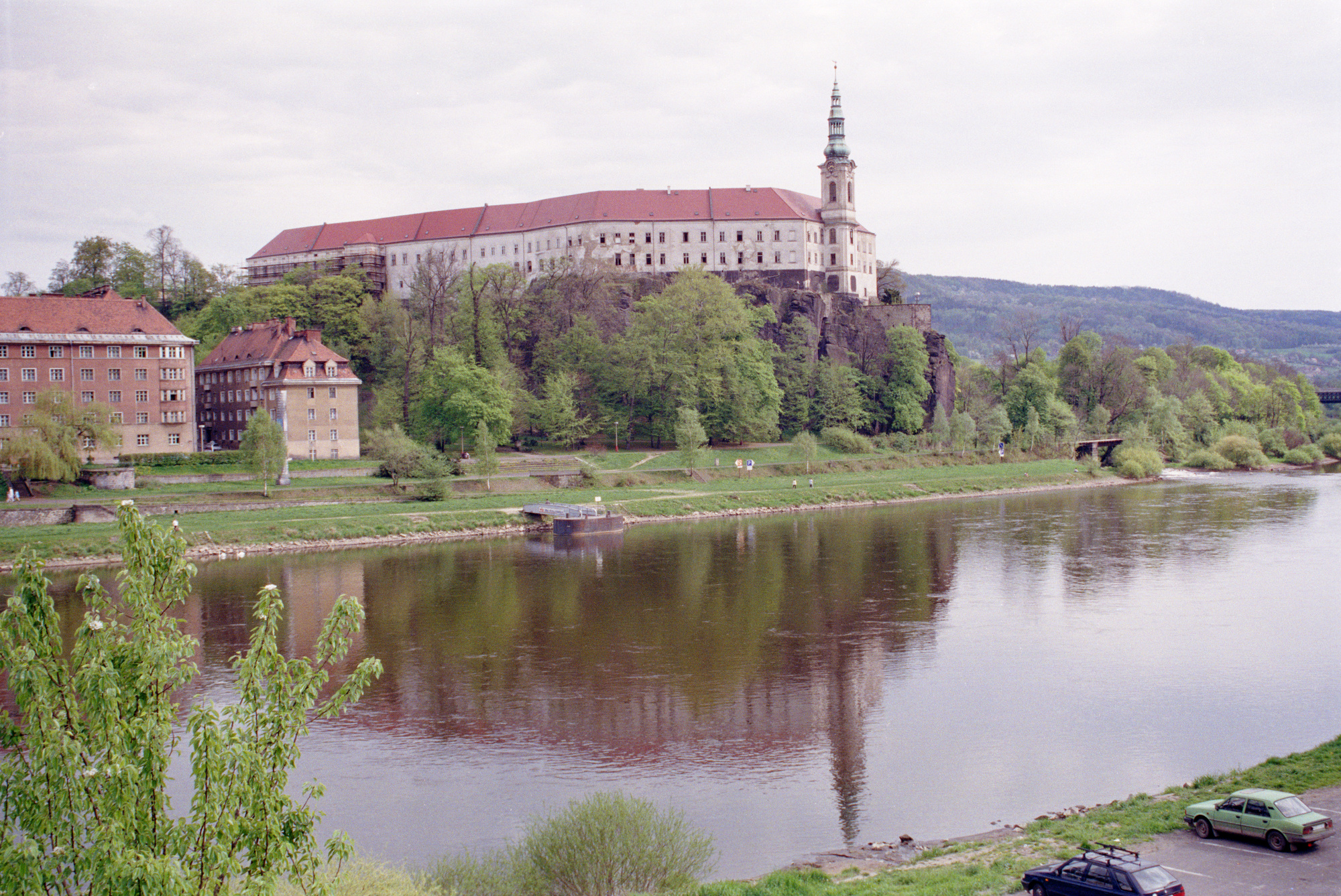 Castle in Děčín in the Czech Republic picture taken by myself in summer 1998